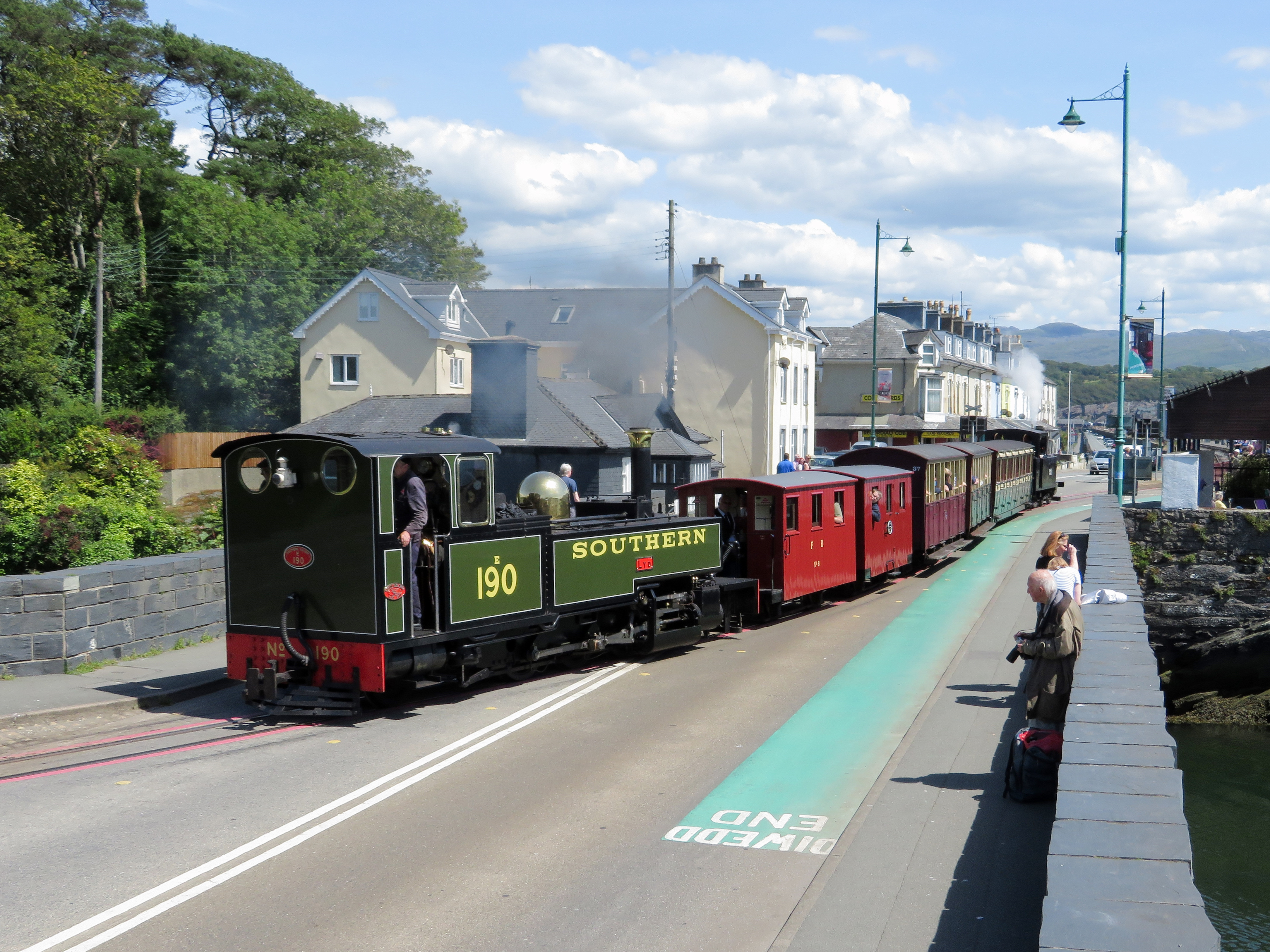 Lyd in Porthmadog